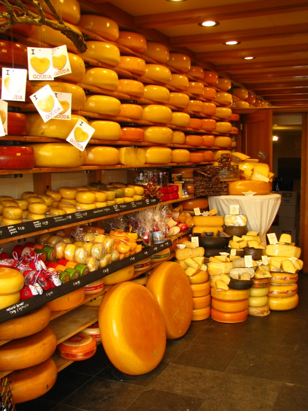 Gouda cheese shop in Gouda, Netherlands.